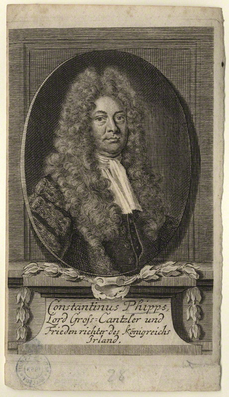 Early 18th century line engraving of Sir Constantine Phipps (1656-1723), Lord Chancellor of Ireland after John Simon